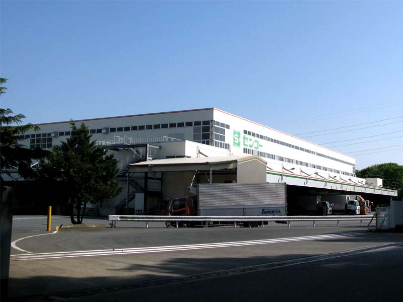 SENKO Kashiwa-PD1